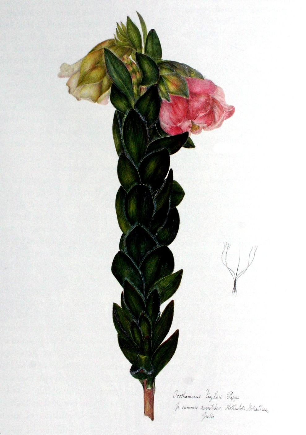 Orothamnus zeyheri Pappe ex Hook. - watercolour